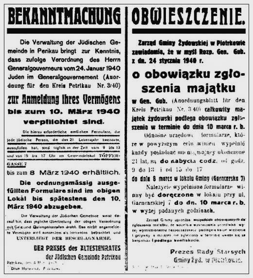 Official announcement about the Piotrków Trybunalski Ghetto registration of all Jewish property in the city, written in German and Polish. The Polish part of the German order reads: "Obwieszczenie. Zarząd Gminy Żydowskiej w Piotrkowie zawiadamia, że w myśl Rozp. Gen. Gub. z dn. 24 stycznia 1940 r. o obowiązku zgłoszenia majątku w Gen. Gub. (...) całkowity majątek żydowski podlega obowiązku zgłoszenia w terminie do dnia 10 marca r. b. "— (etcetera, signed by) Prezes Rady Starszych w Piotrkowie.